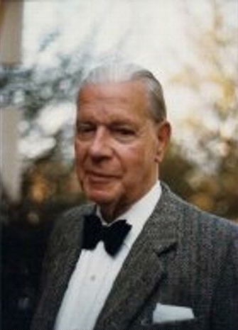 Picture of Prof. Max J. O. Strutt, 1980, Zurich, Switzerland